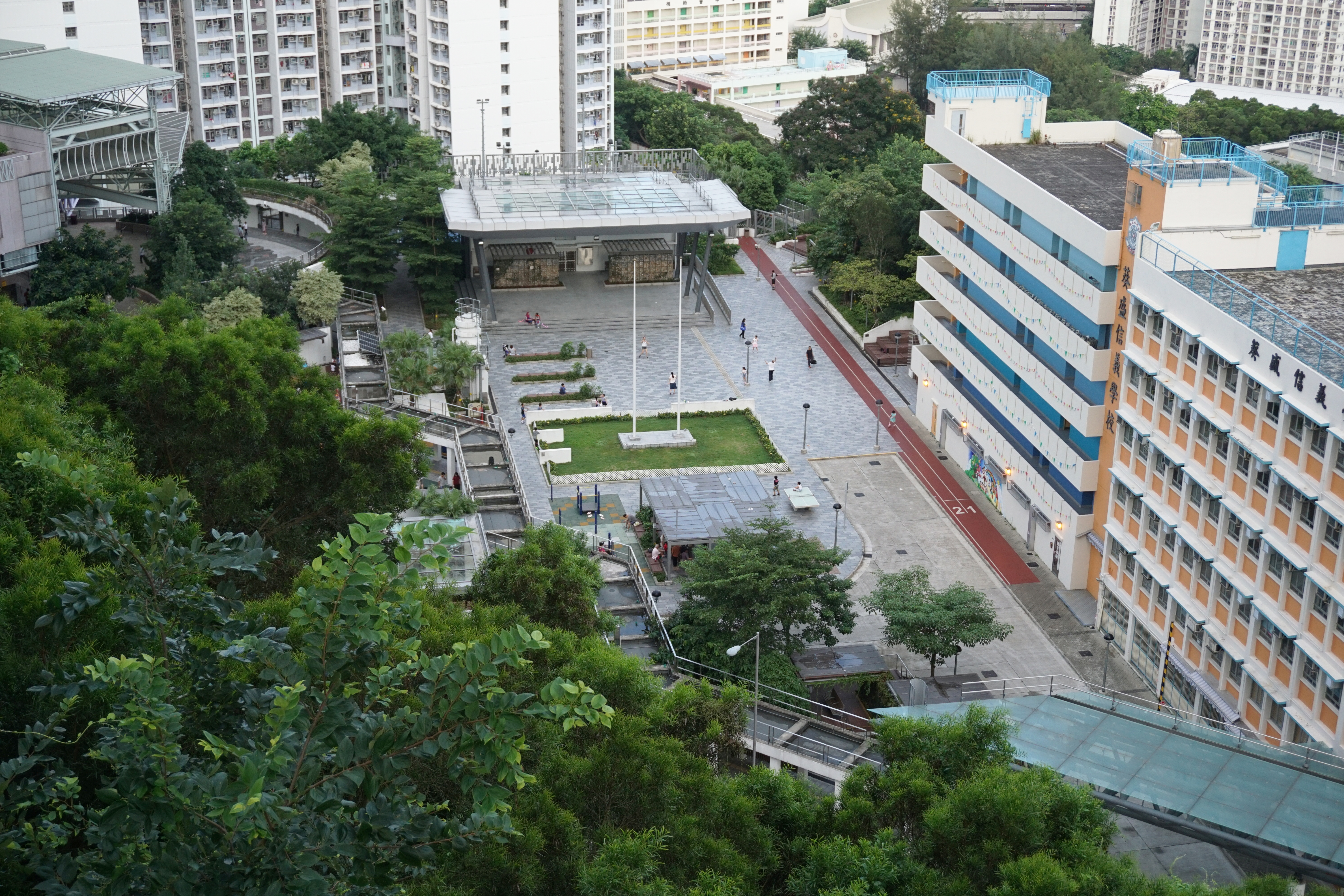 Kwai Luen Estate in Kwai Shing, Hong Kong.